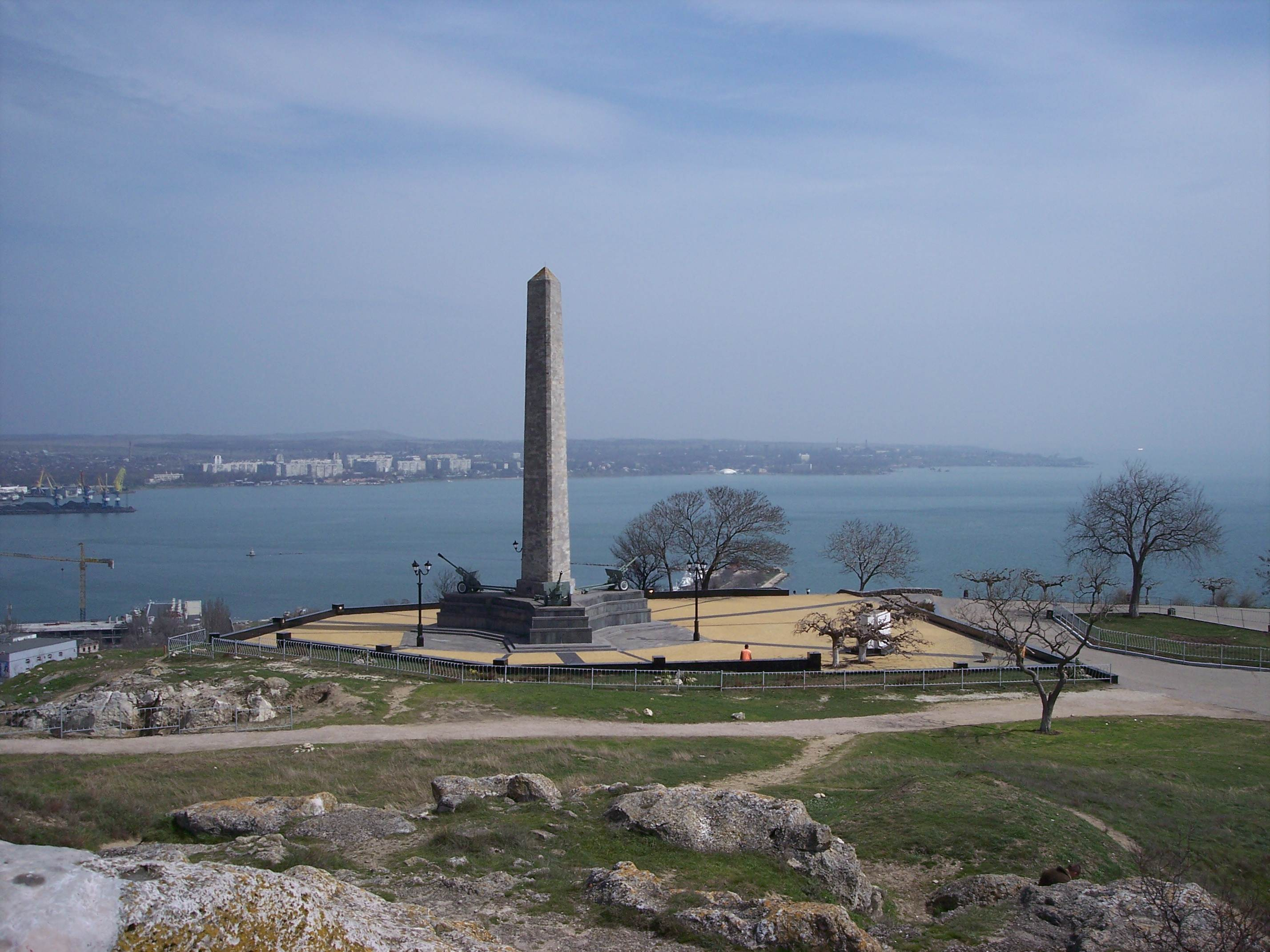 Obelisk of Glory on Mount Mithridat (view from the mountain peak), Kerch, Crimea, Ukraine Обеліск Слави на горі Мітридат (вигляд з верхів'я гори), Керч, Крим, Україна Обелиск Славы на горе Митридат (вид с вершины горы), Керчь, Крым, Украина